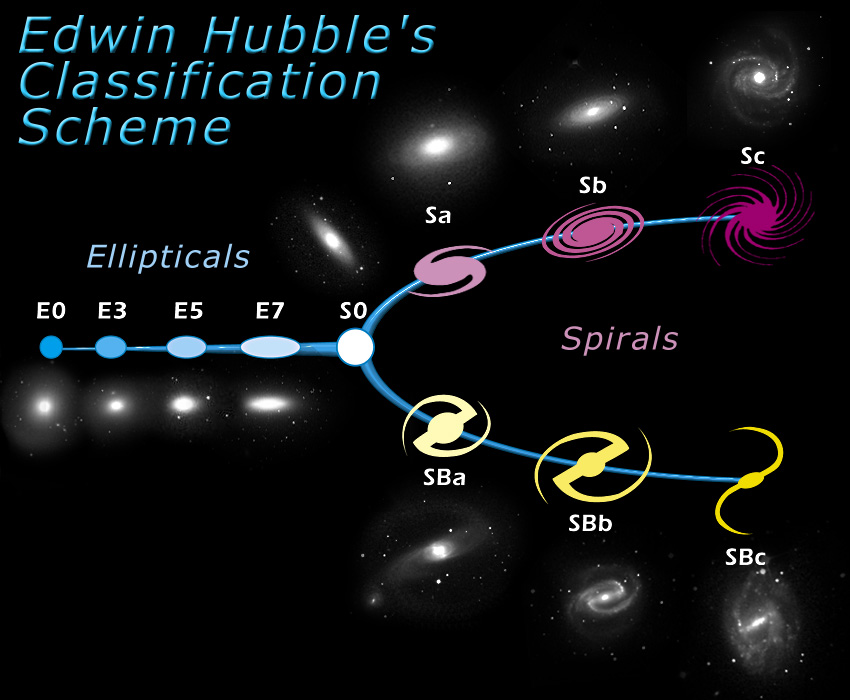 Galaxies are very important fundamental building blocks of the Universe. Some are simple, while others are very complex in structure. As one of the first steps towards a coherent theory of galaxy evolution, the American astronomer Edwin Hubble, developed a classification scheme of galaxies in 1926. Although this scheme, also known as the Hubble tuning fork diagram, is now considered somewhat too simple, the basic ideas still hold...